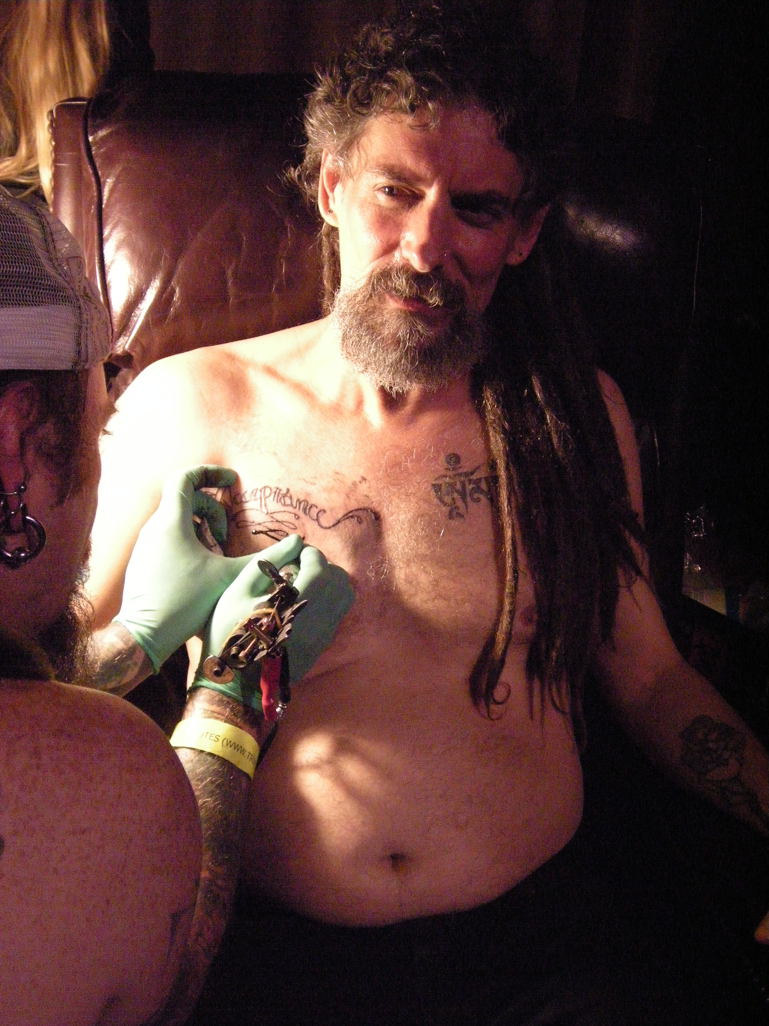 One of a series of photos showing Vivian McPeak getting a tattoo (the word "Acceptance" on the right side of his chest) from tattoo artist Kevin Black at Vivian's 50th Birthday Party, King Cat Theater, Seattle, Washington, U.S. 18-Finishing the first round of inking.